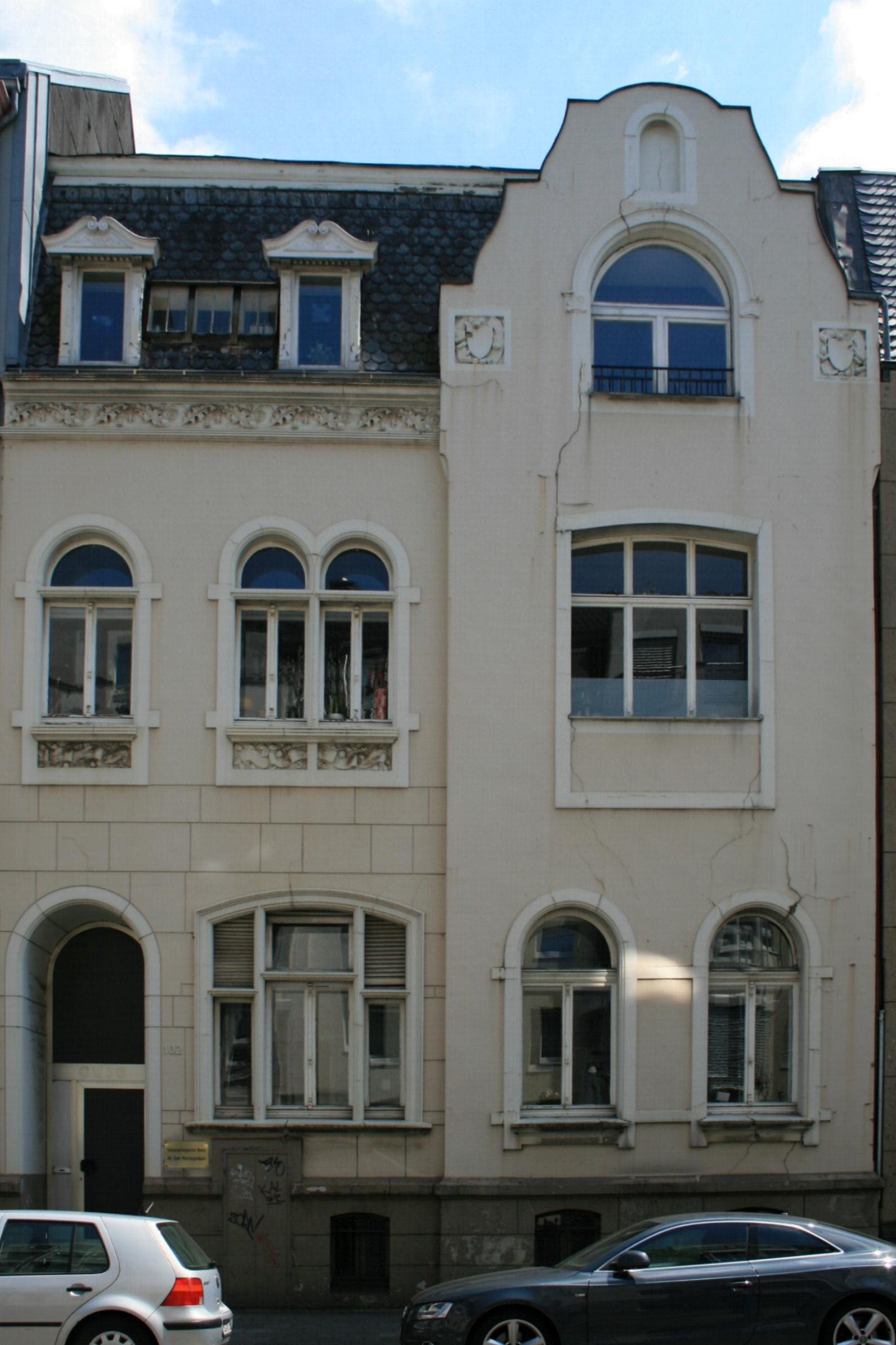 Cultural heritage monument No. K 061 in Mönchengladbach